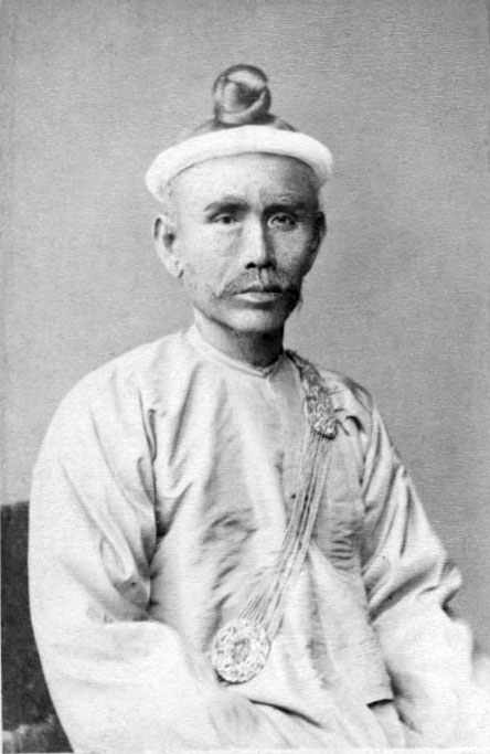 Kenwoon Mengyee (Kinwun Mingyi), Burmese ambassador His Excellency Kenwoon Mengyee and his suite arrived at Dover on 5 June 1872. The Embassy were welcomed on behalf of the English government by Major Macmahon of the Indian Office, accompanied by other dignitaries, and the Burmese ambassador’s translator replied that ‘His Excellency cannot find words to sufficiently express and convey to you the pleasure it has given him to receive this friendly and propitious greeting, coming as it does from such an enlightened and free nation. He congratulates himself on upon having selected this charming spot as a landing-place, and he will remember with the greatest pleasure the very flattering and cordial manner in which the inhabitants of this town have been pleased to meet him today.’ The ambassador was then introduced to members of the town council and the party then proceeded in four carriages to visit the castle, where they were given lunch by officers of the Royal Artillery before departing by train for London. The proceedings were witnessed by a large crowd of spectators.